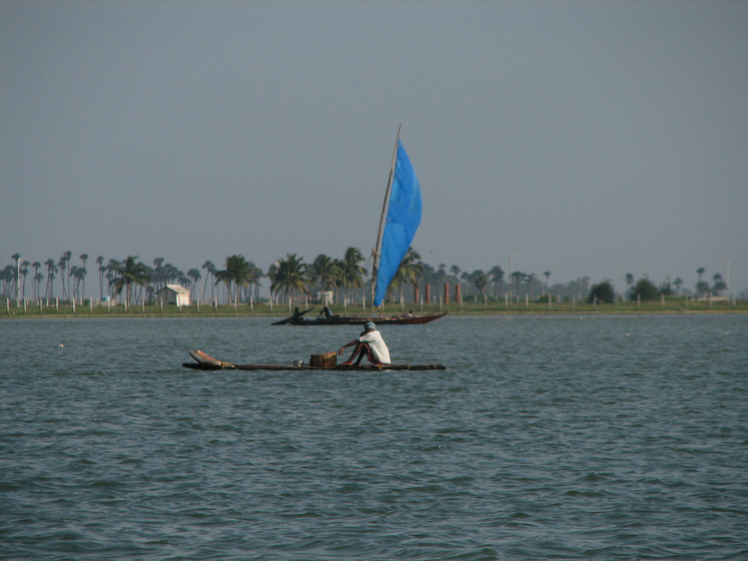 Unfortunately not a crisp shot, but a good capture of boats on the peaceful Pulicat Lake.